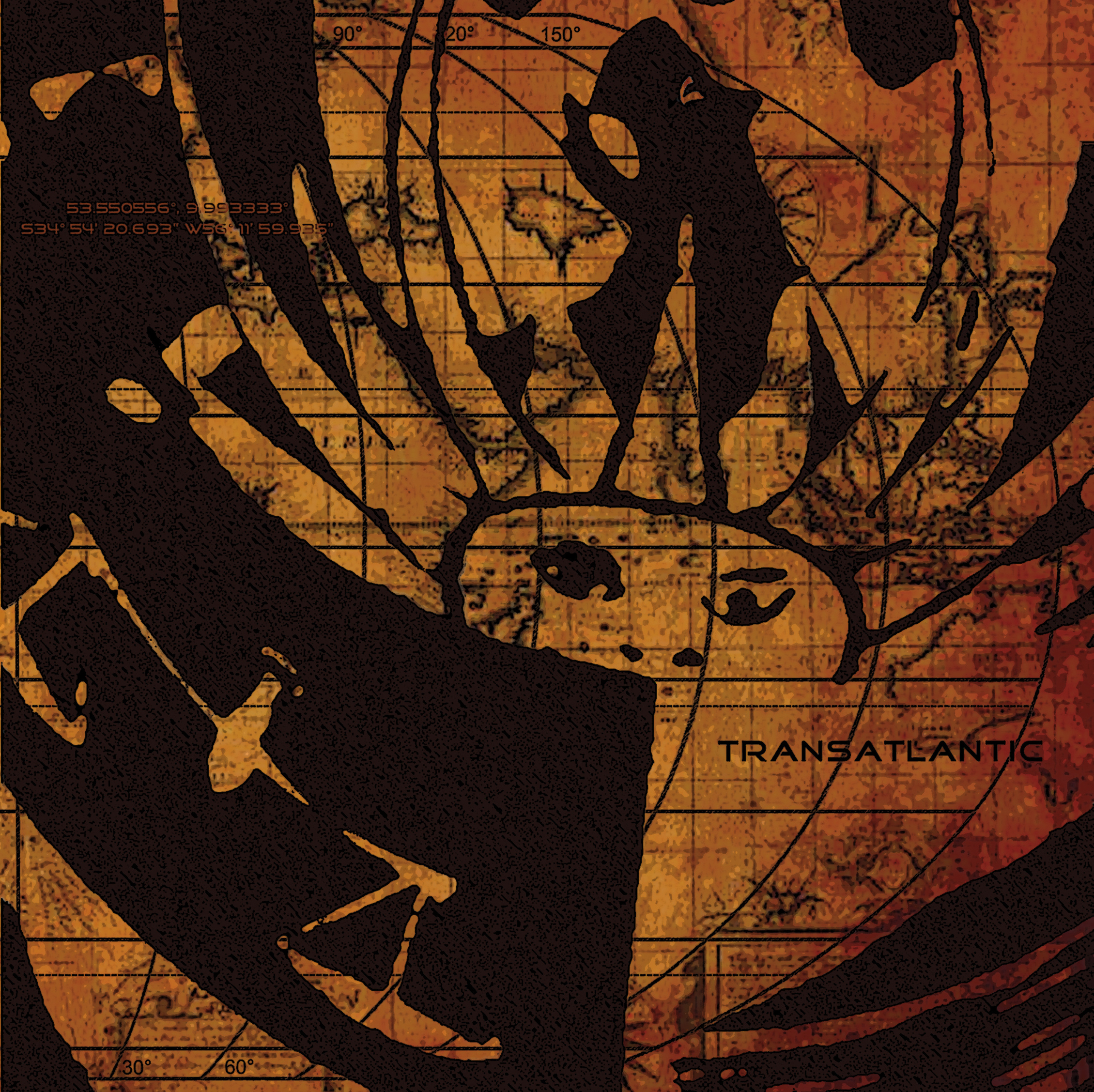 Trailer Park Sex Transatlantic Ep Artwork